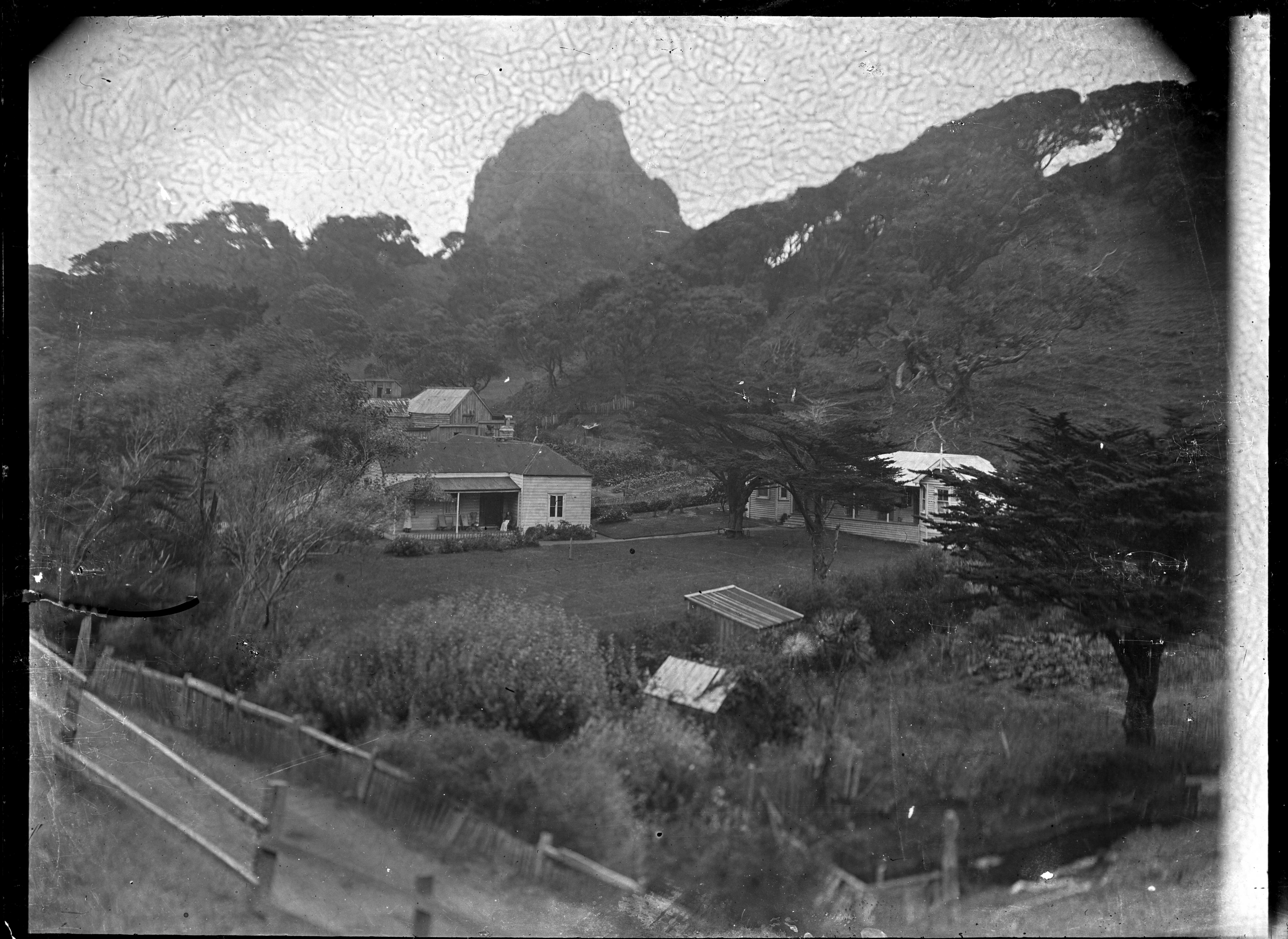 Farley's Boarding House at Karekare. Photograph taken by Albert Percy Godber, between 1915 and 1916.